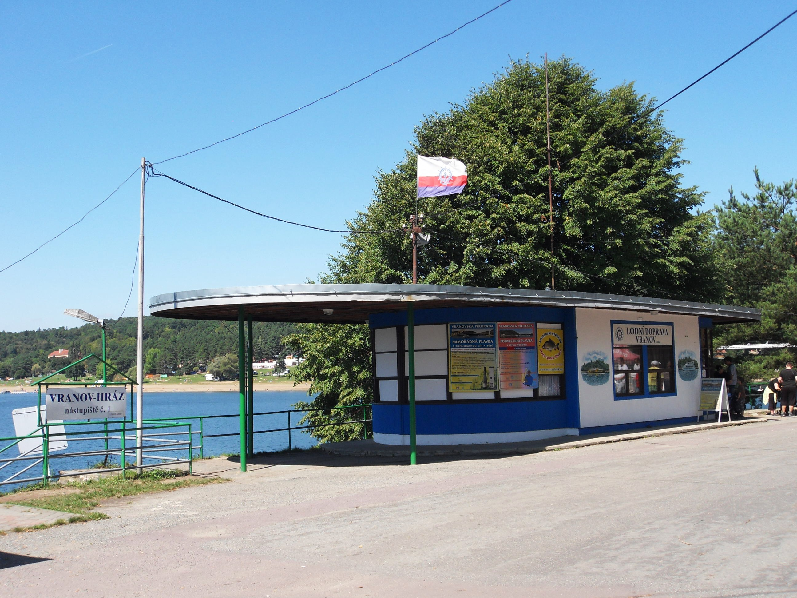 Vranov dam, Onšov, Znojmo district, Czech Republic